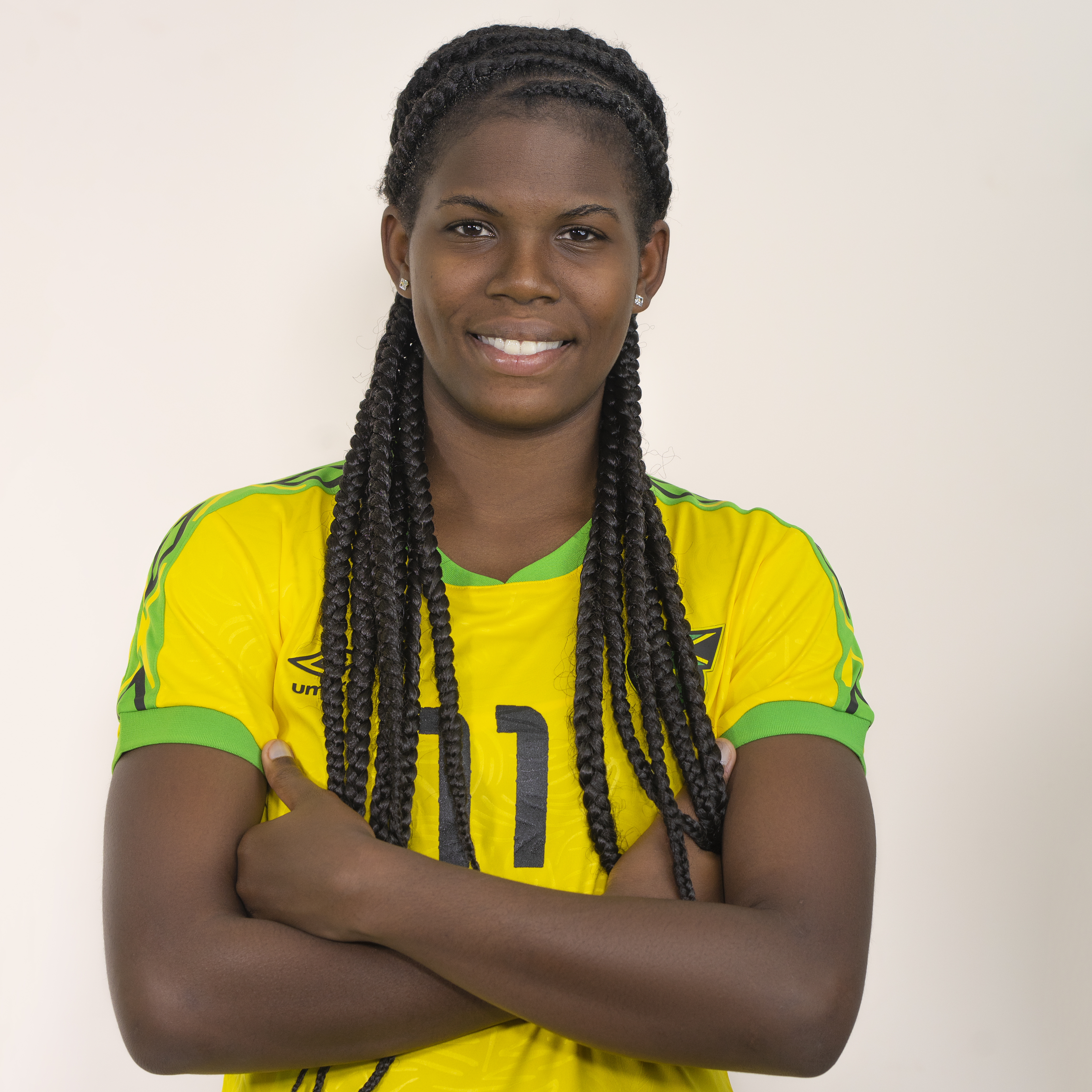 Reggae Girlz professional shot for World Cup